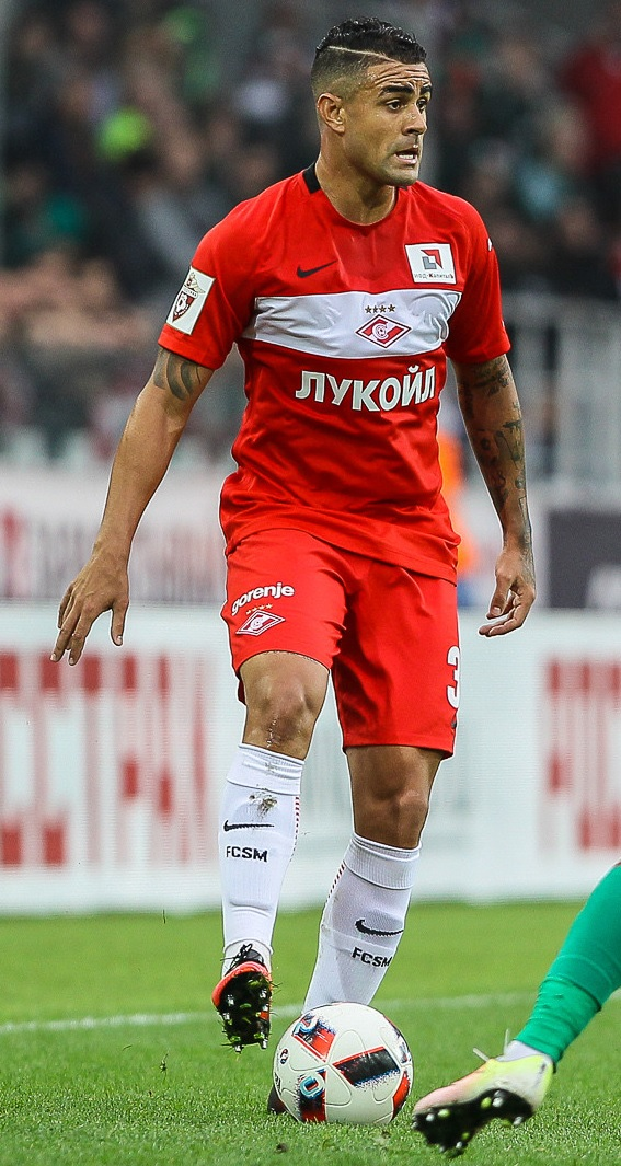 Maurício with FC Spartak Moscow in a game against FC Lokomotiv Moscow.